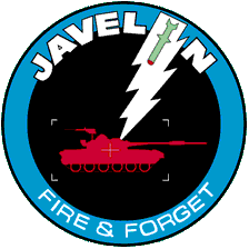 Logo of US-Army Javelin